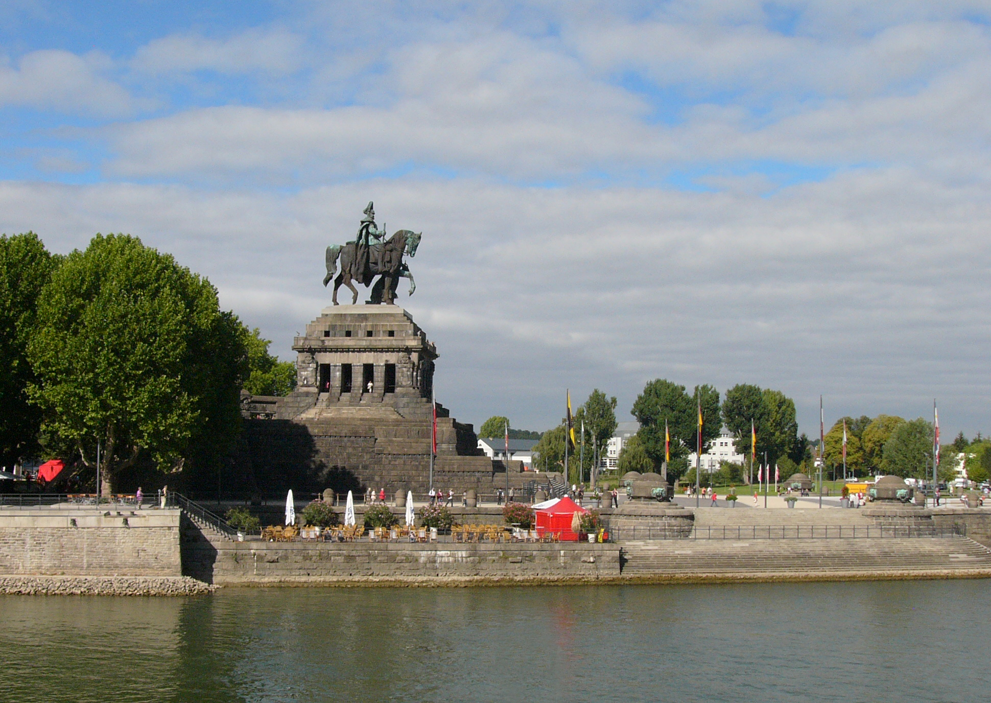 View to Deutsches Eck located at the confluence of Rhine and Moselle Rivers in Koblenz, Germany.